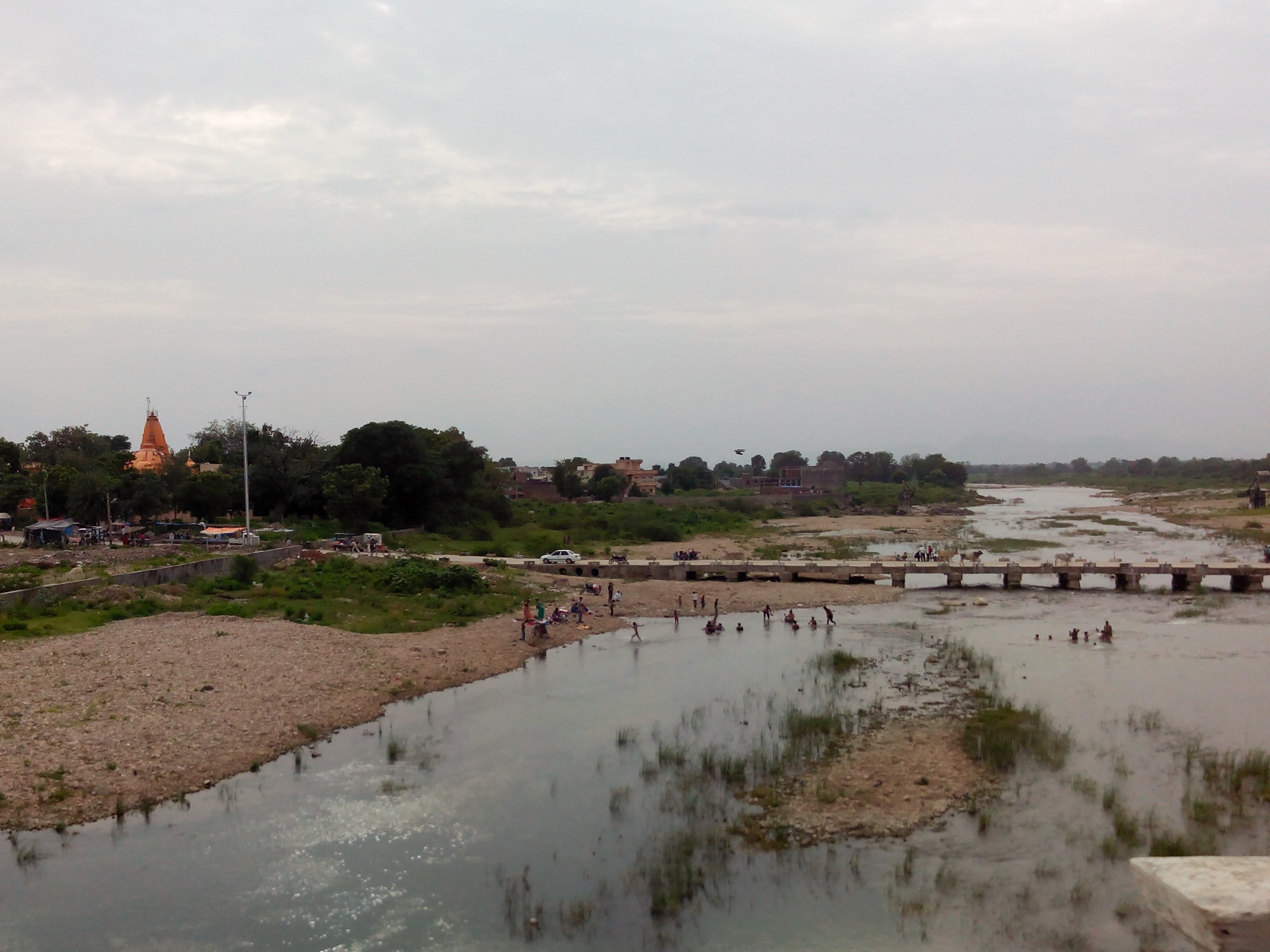 Harnav river in monsoon flowing through Khedbrahma